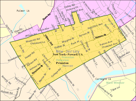 Census Bureau map of Borough of Princeton, New Jersey. In 2013 it merged with Princeton Township to form Princeton, New Jersey, a united borough.